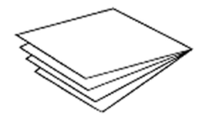 Fan pattern